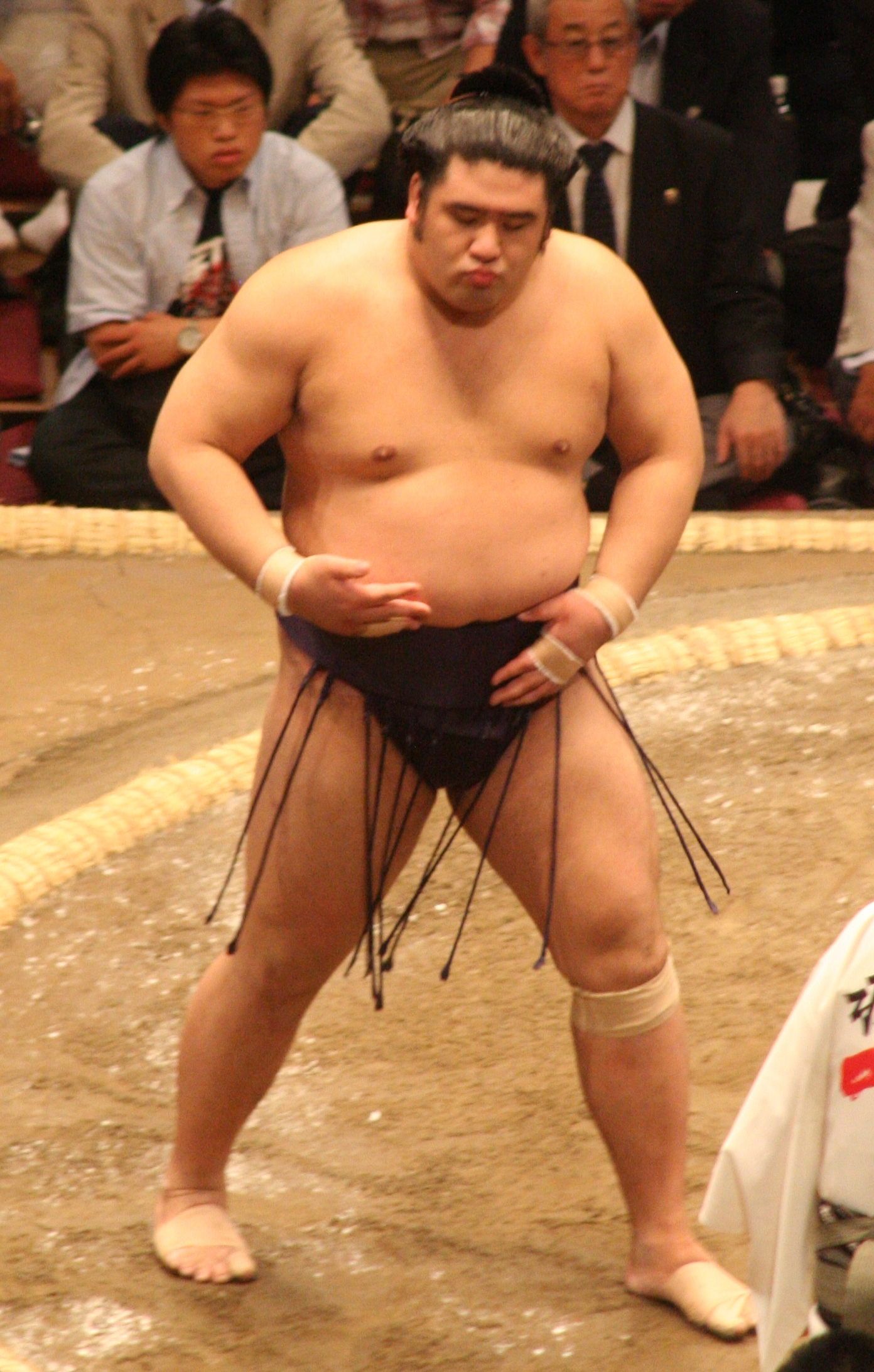 First day of 2009 May Sumo Tournament in Tokyo, Japan - Tochiozan